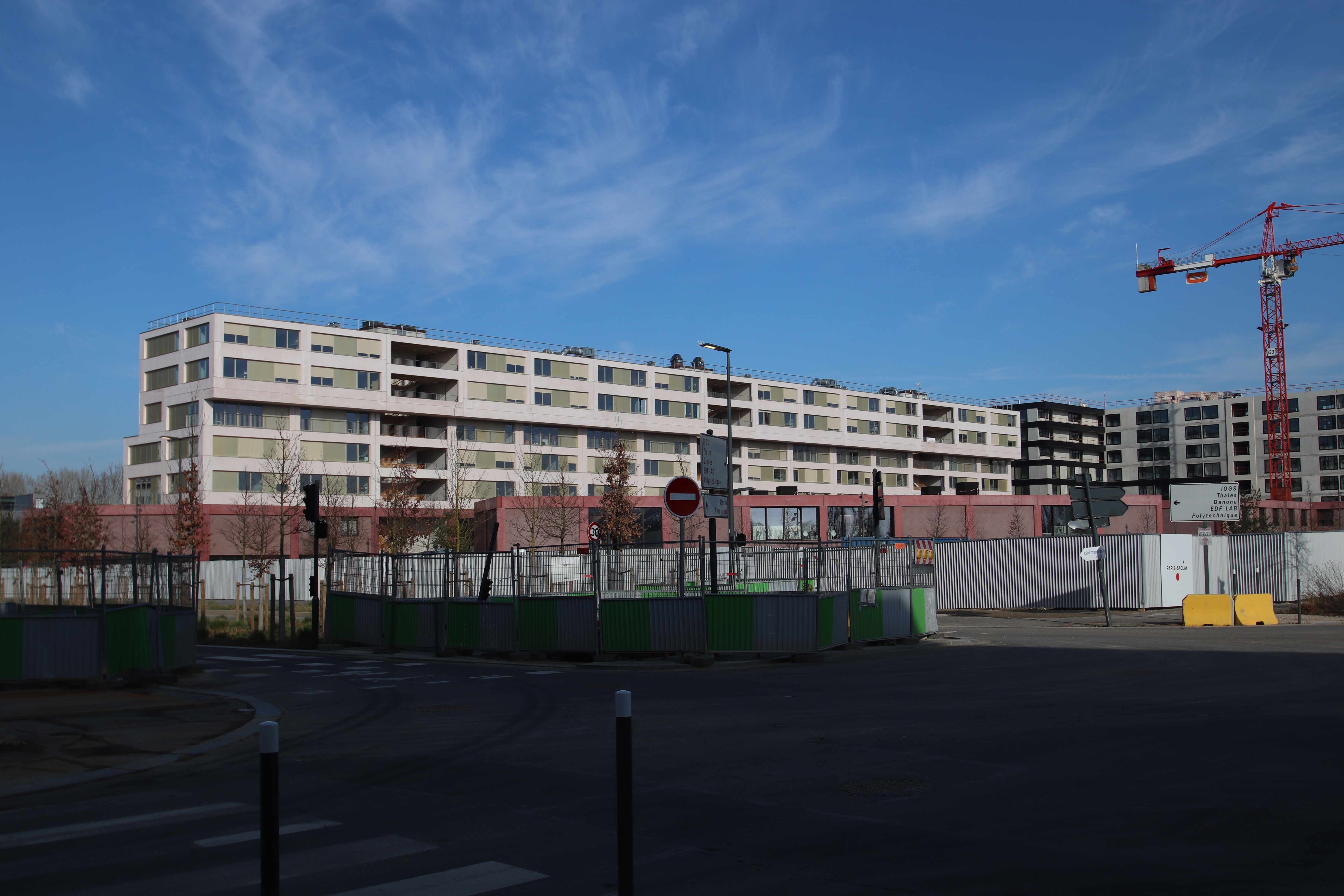 Student residence Alexandre Manceau on Vauve avenue in Palaiseau, France. Object location48° 42′ 46.62″ N, 2° 12′ 11.16″ E